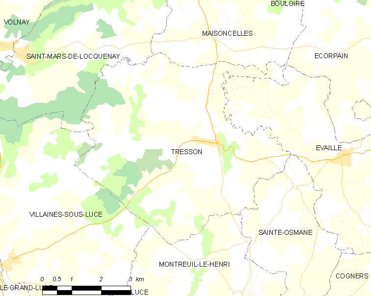 Map of French municipality